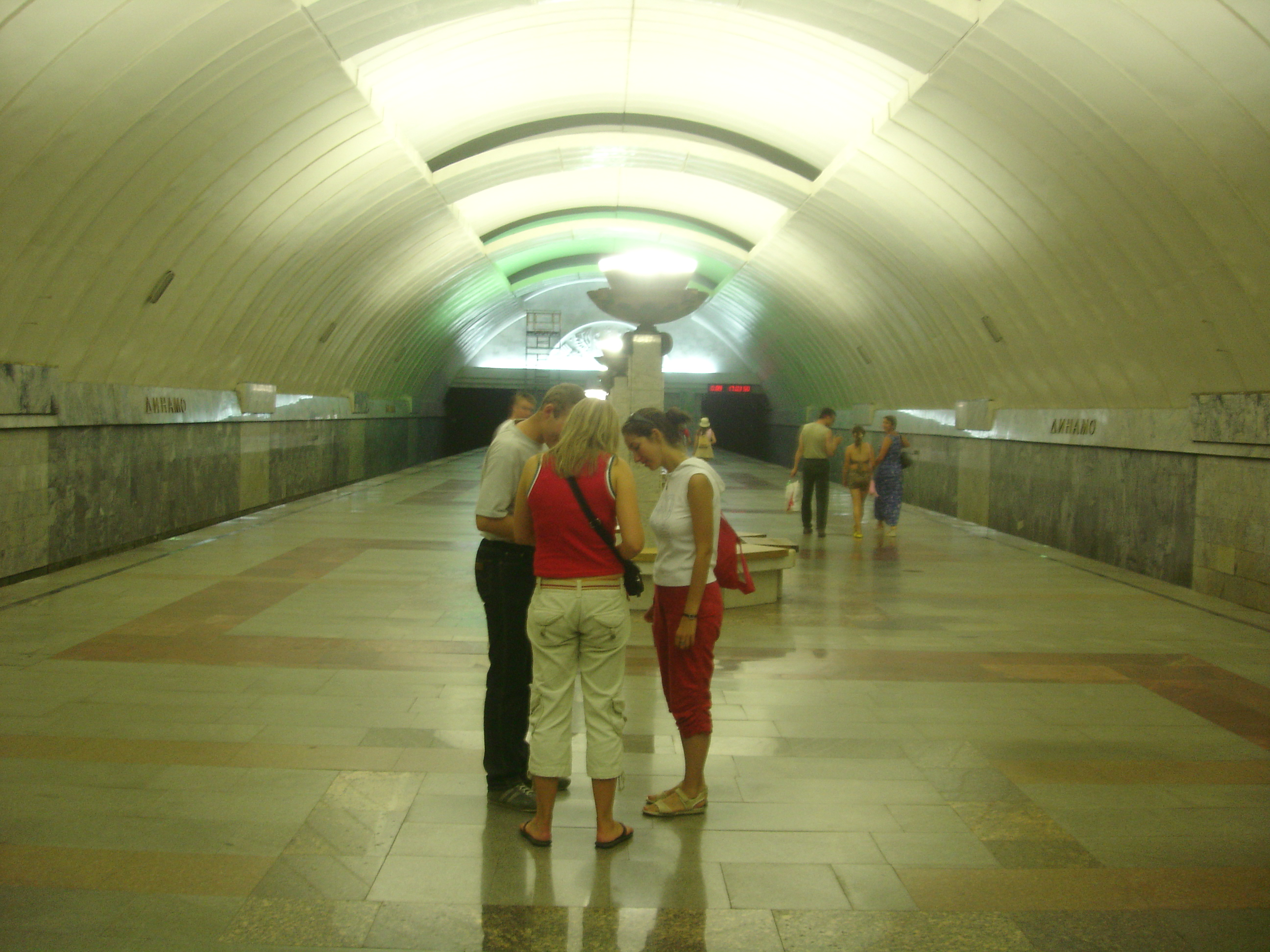 People gather on the platform at Dinamo, one of the stations in the Yekaterinburg Metro system.